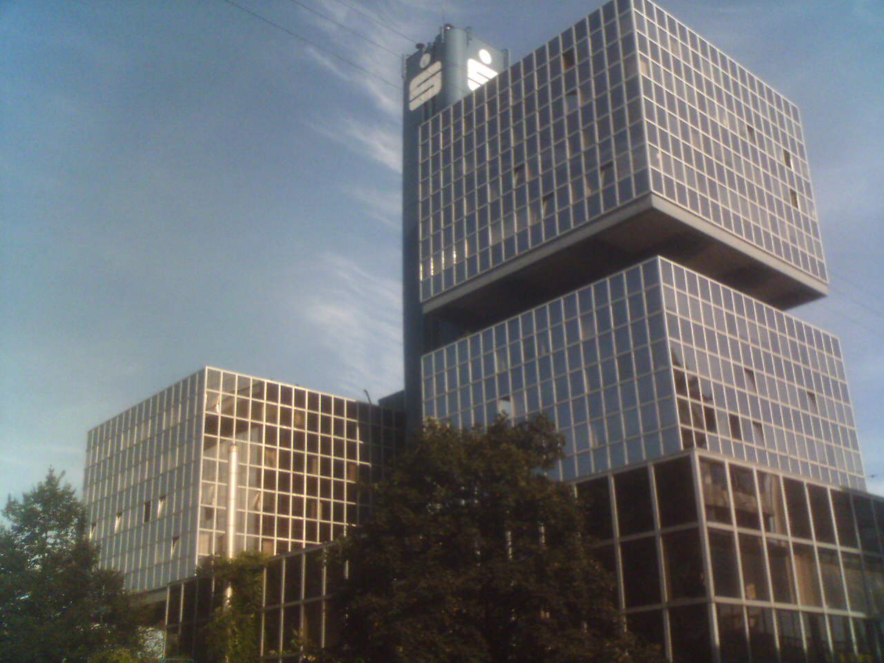 picture taken by myself in Linz, 22 september 2005. Picture shows the 51 meter high "Sparkasse"-Upper Austria (Oberösterreich) - Headquater (Zentrale) in the Linzer Urfahr-district.